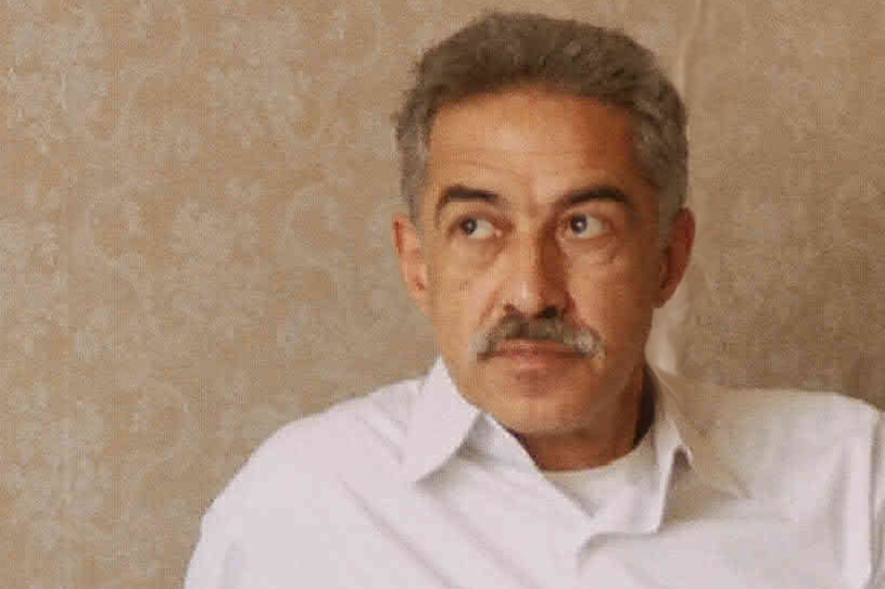 Mr, Aalaeddin Melmasi in long day.